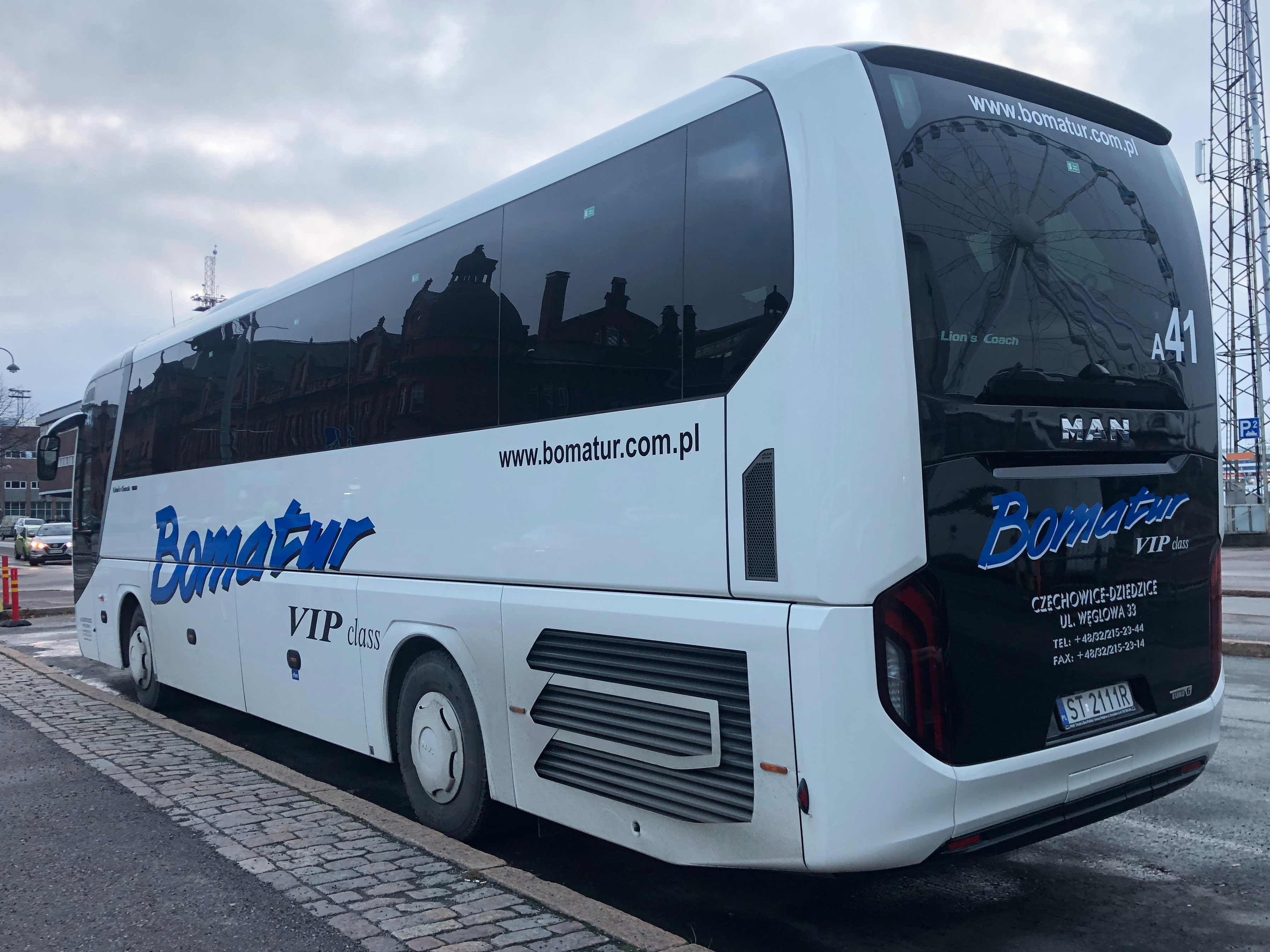 MAN Lion’s Coach of Polish Bomatur VIP Travel, spotted in a parking lot near Scandic Hotel, in Helsinki, Finland. (Rear view)